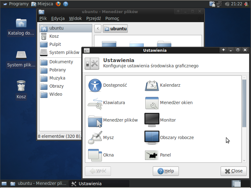 Ubuntu 10.04 xfce desktop PL screenshot